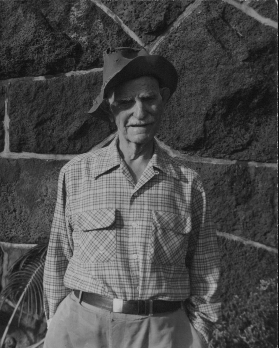 George Lycurgus (Greek: Γεώργιος Λυκοῦργος) (1858–1960) was a Greek American businessman who played an influential role in the early tourist industry of Hawaii.